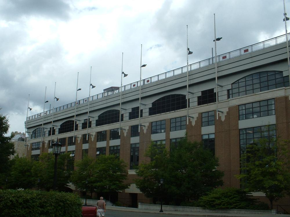 Alumni Stadium's south façade, facing Beacon Street.